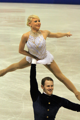 Caitlin Yankowskas and John Coughlin at the 2009 Skate Canada International.